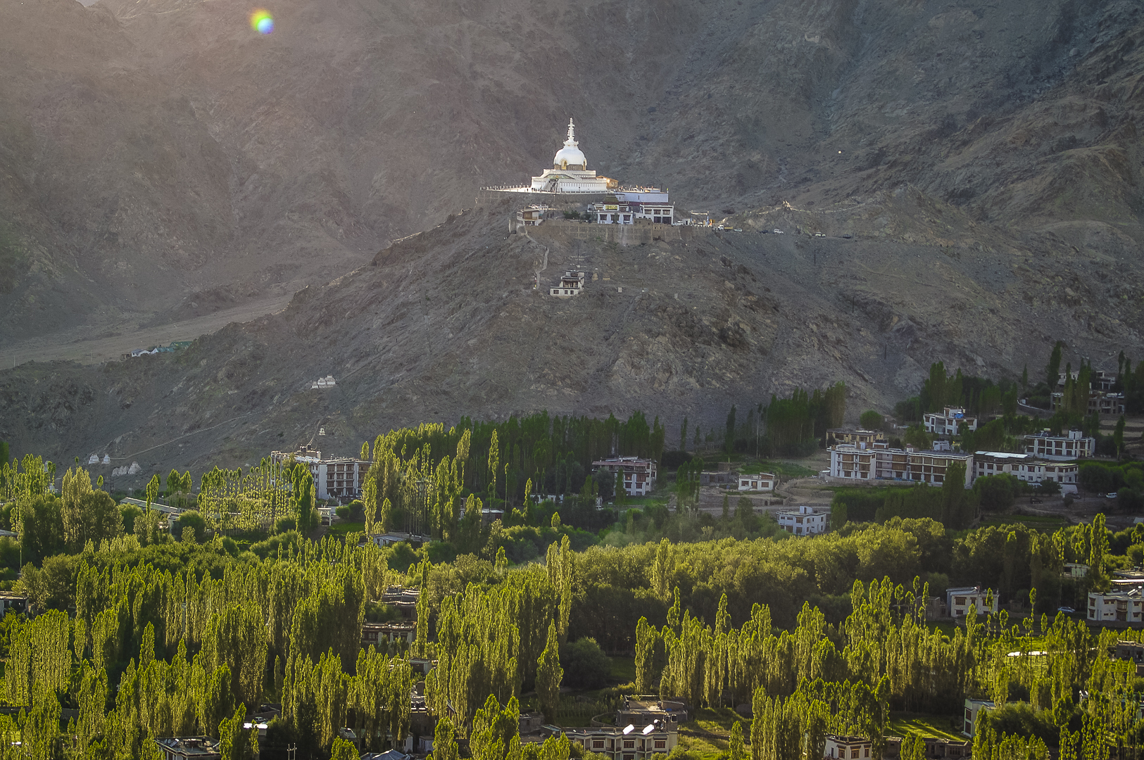 Travelscapes By Sudhakar Bichali - Hyderabad